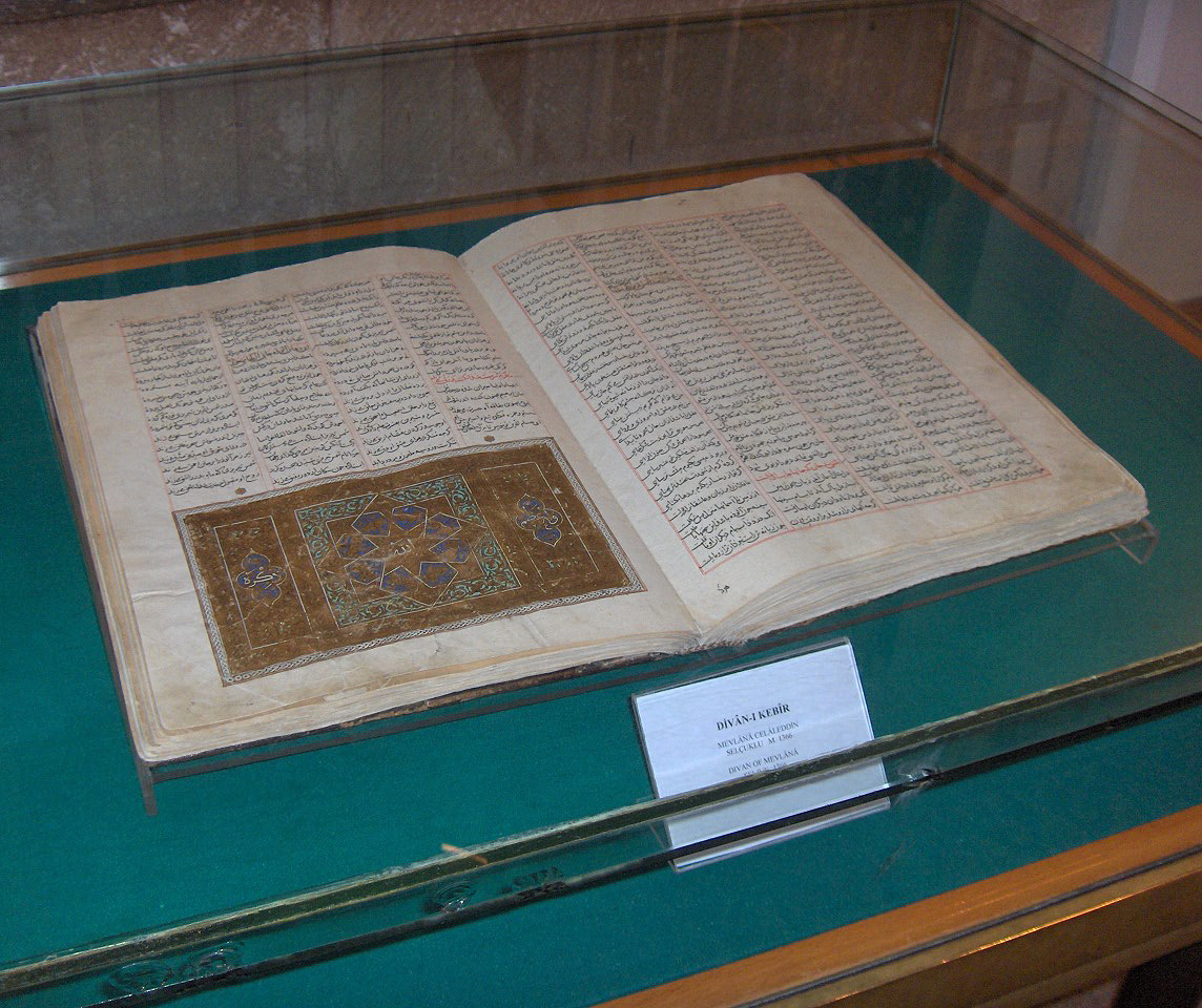 Divan-ı Kebir of Mevlâna; Ritual Hall (Semahane); Mevlâna mausoleum